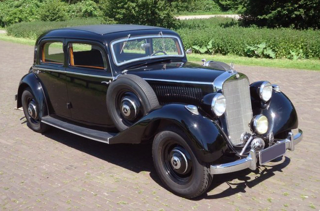 1938 Mercedes-Benz 230 (W143) with four window, sedan bodywork